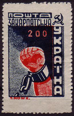 Stamp of the Carpatho-Ukraine. A hand compressed in a fist and tearing fetters, 1945.